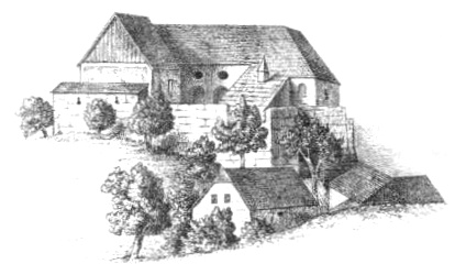 former Radeck Castle (as re-erected in the 17th century) in Bergheim, state of Salzburg, Austria